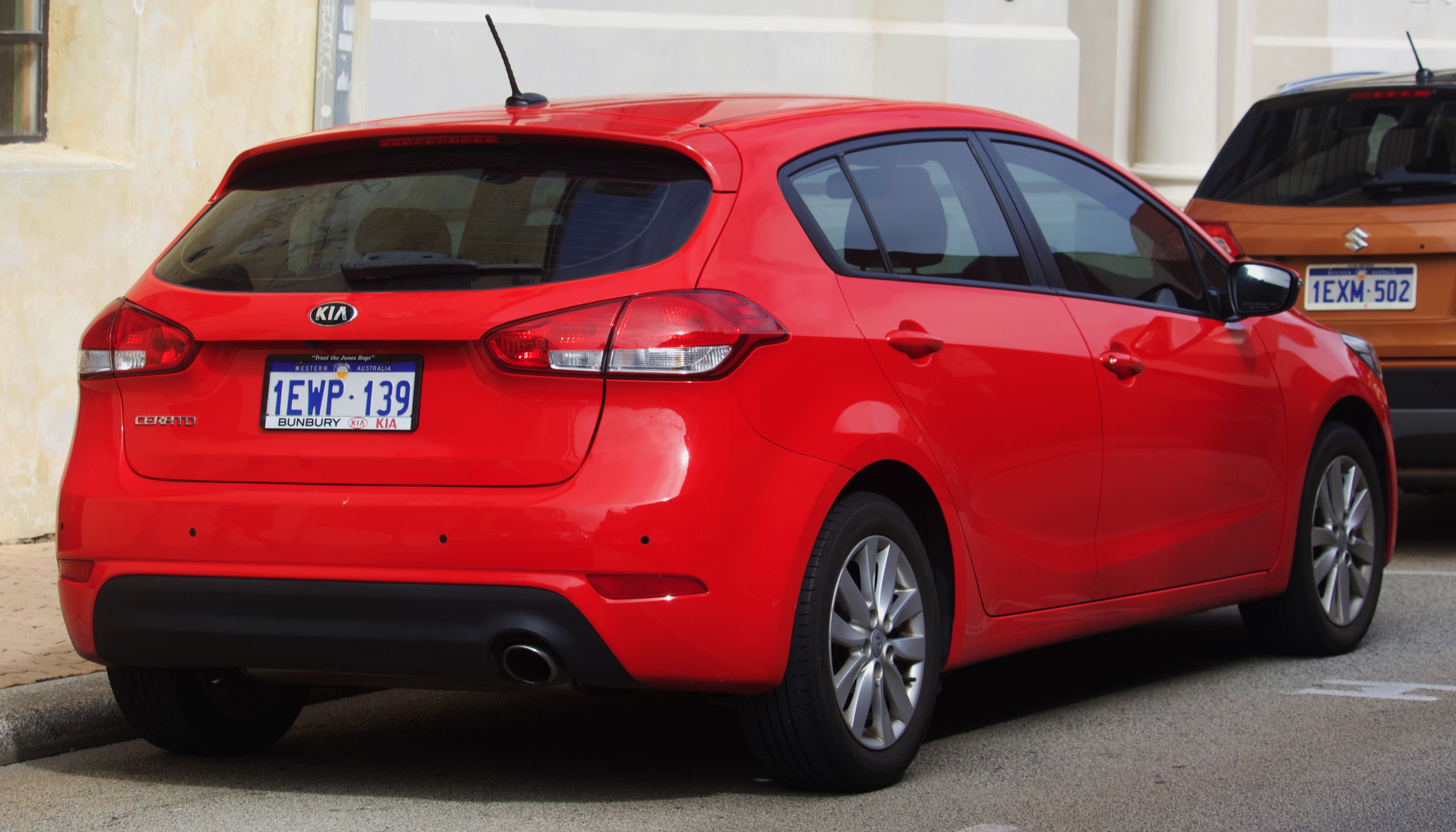 2015 Kia Cerato (YD MY16) Si hatchback. Photographed in Fremantle, Western Australia, Australia.